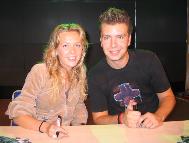 Belgian dance act Sylver